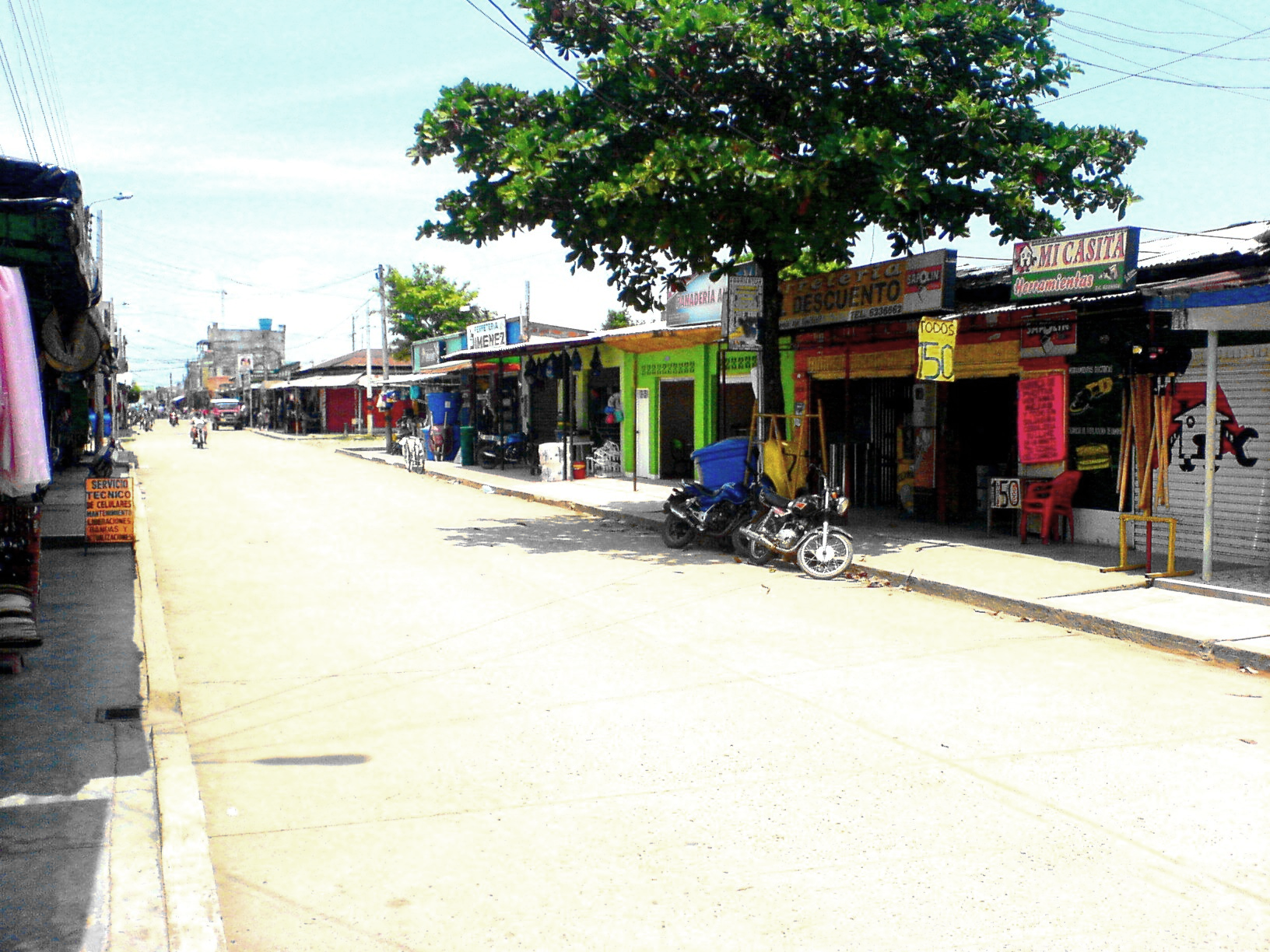 A view of San Pablo in the Bolívar Department of Colombia.